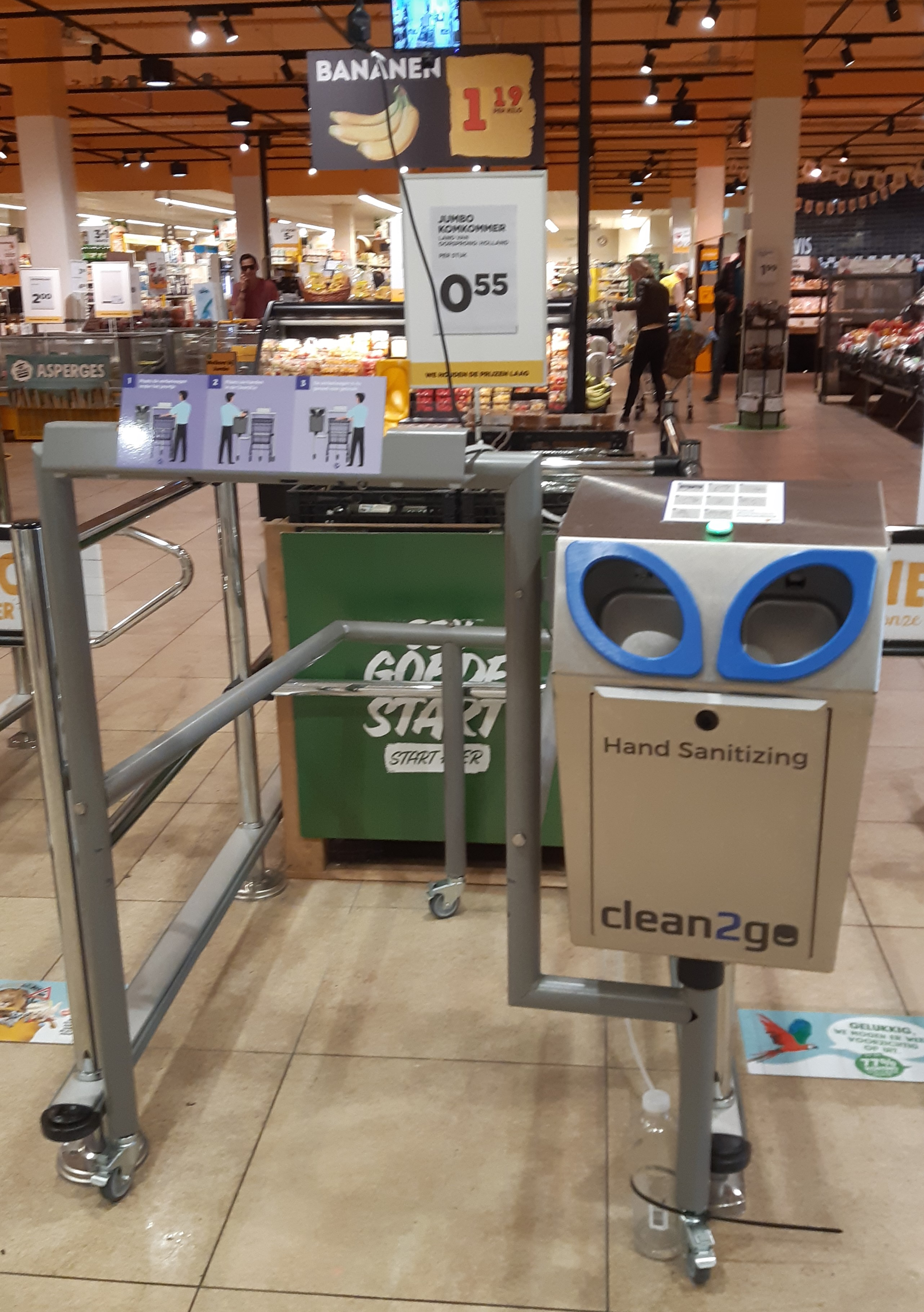 Sanitizing equipment in a Dutch supermarket during the COVID-19 pandemic. The shopping cart is pushed forward; de customer inserts hands in the blue openings; desinfectant is sprayed on the customer's hands and the push bar of the shopping cart.